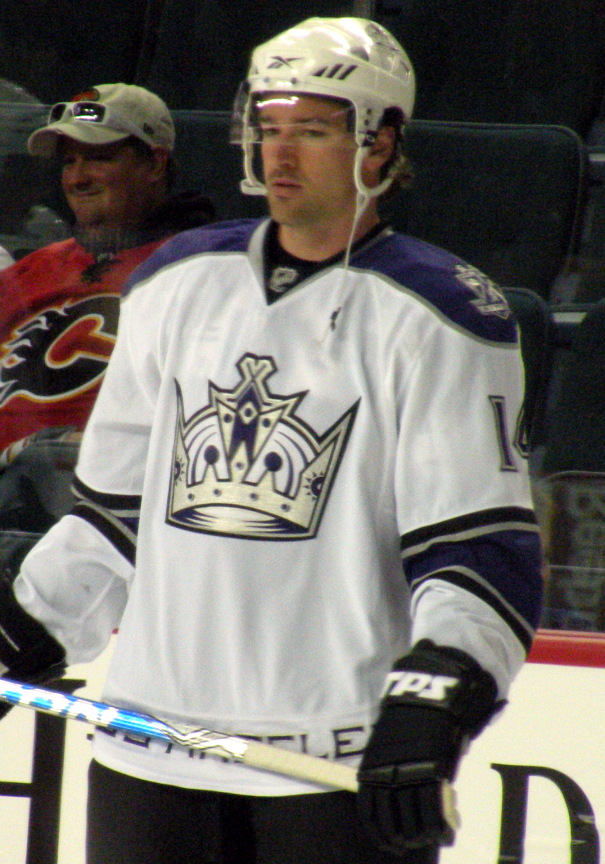 Los Angeles Kings forward Justin Williams during warmup prior to a National Hockey League game against the Calgary Flames in Calgary.